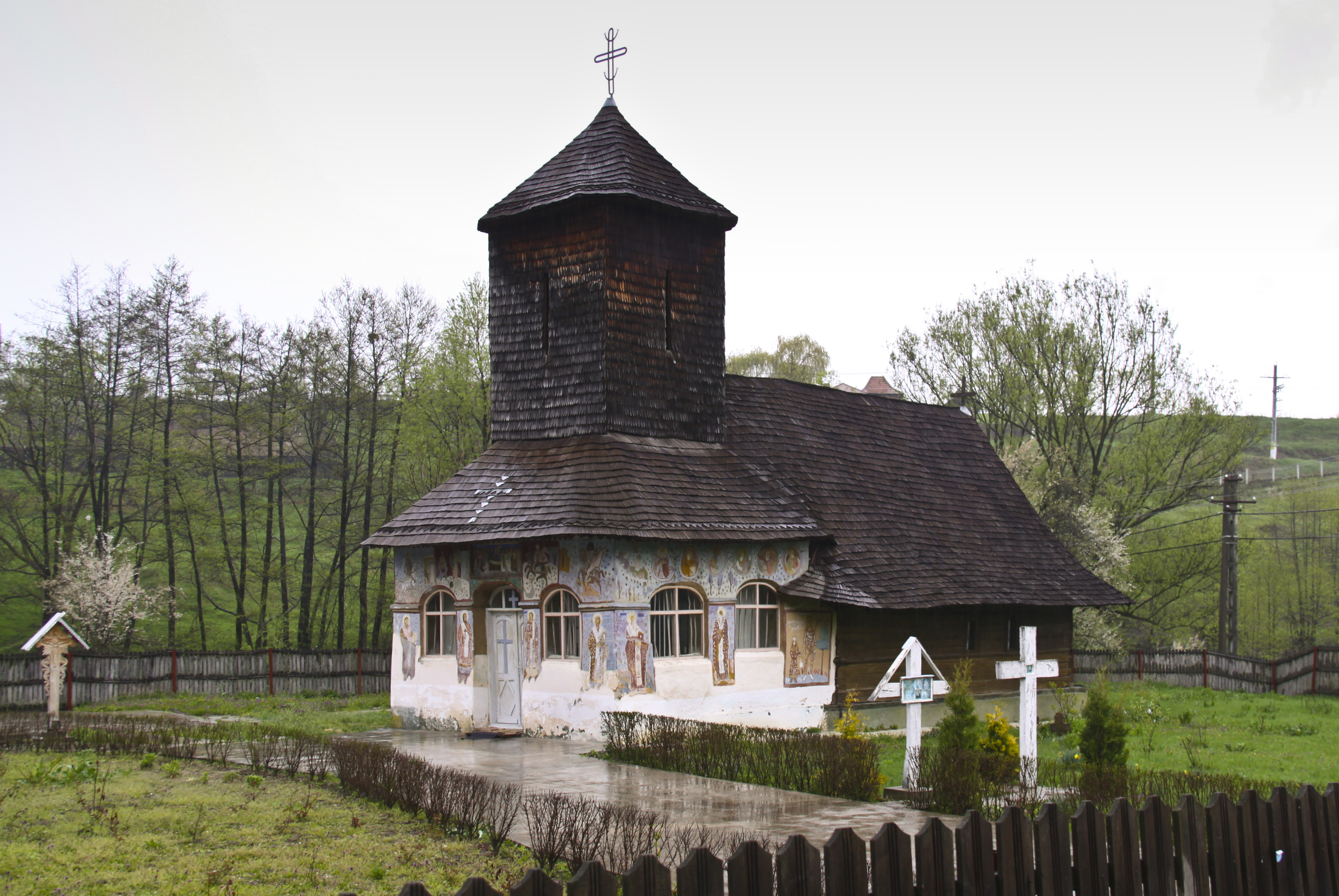 Glâmbocu, Argeş county, Romania: the wooden church.